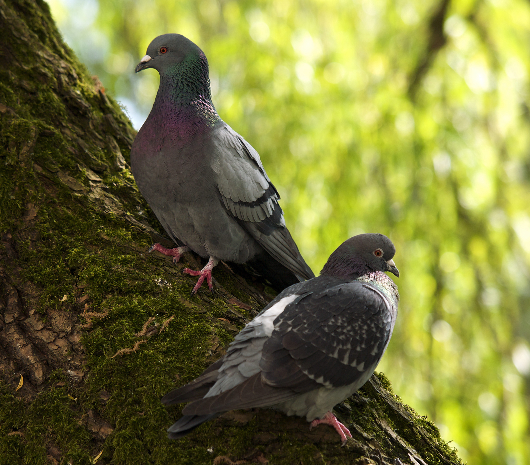 Feral Pigeon (Columba livia f. domestica), Chemnitz, Germany